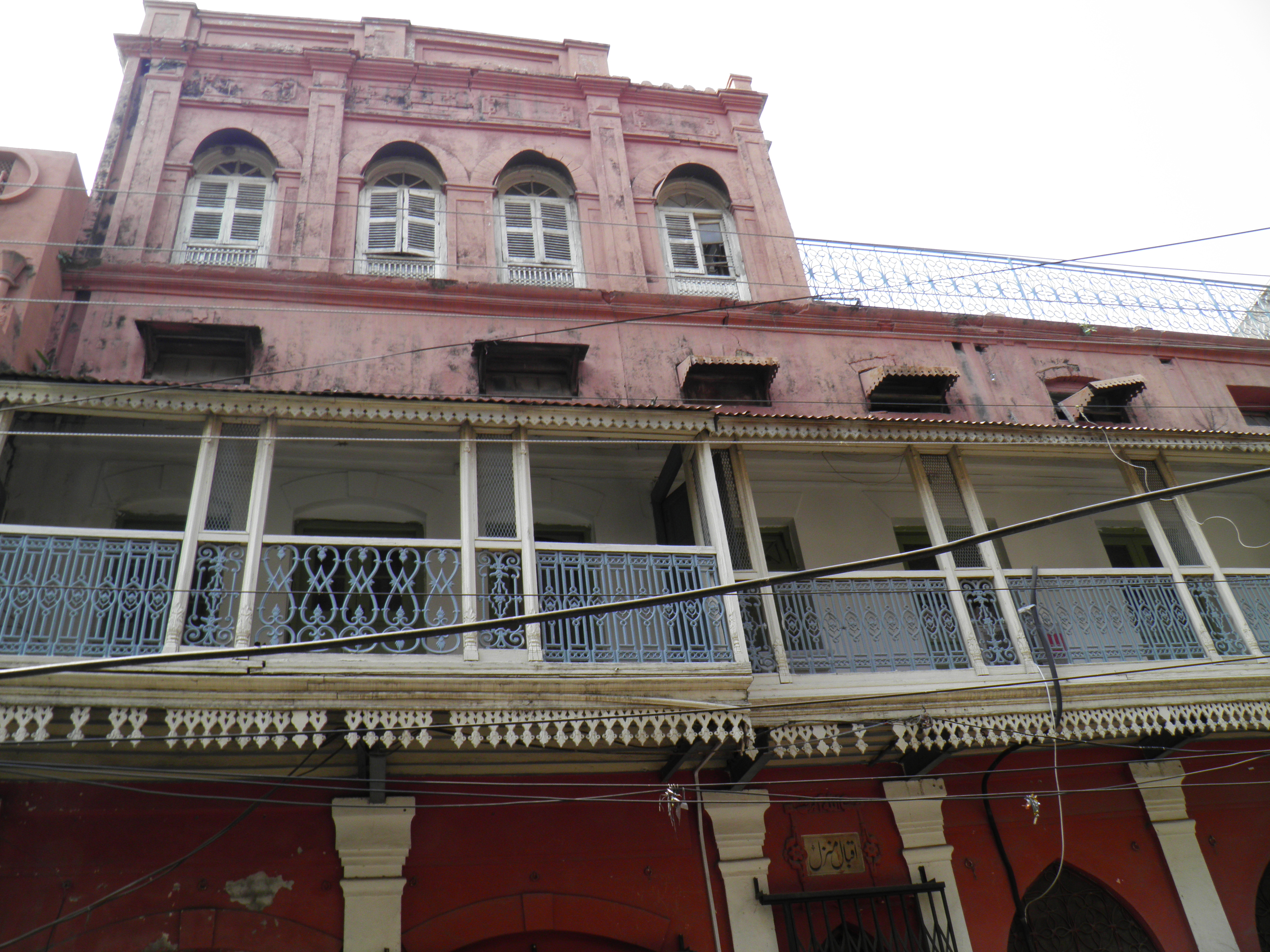 Iqbal Manzil This is a photo of a monument in Pakistan identified as the PB-U-62